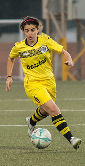 Dorianne Theuma in action for Hibernians.